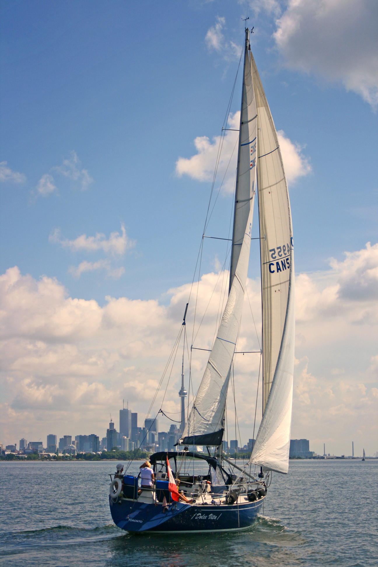 C&C 37/40XL 1 Dolce Vita 1 (now named Salazar)